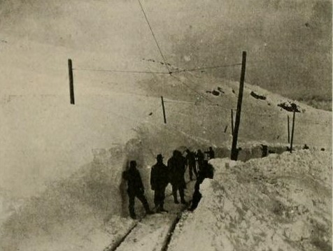 Title: The street railway review Year: 1891 (1890s) Authors: American Street Railway Association Street Railway Accountants' Association of America American Railway, Mechanical, and Electrical Association Subjects: Street-railroads Publisher: Chicago : Street Railway Review Pub. Co